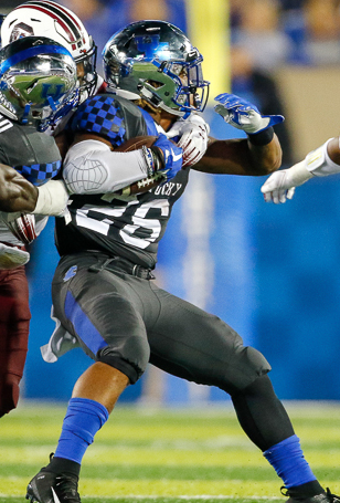 Benny Snell, Jr. gets wrapped up - 31127565638 Photo by Chris Gillespie